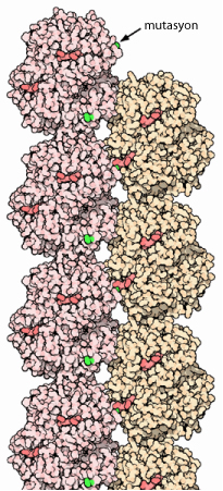 In sickle cell hemoglobin (HbS) glutamic acid in position 6 (in beta chain) is mutated to valine. This change allows the deoxygenated form of the hemoglobin to stick to each other as seen (PDB entry=2hbs) more details...